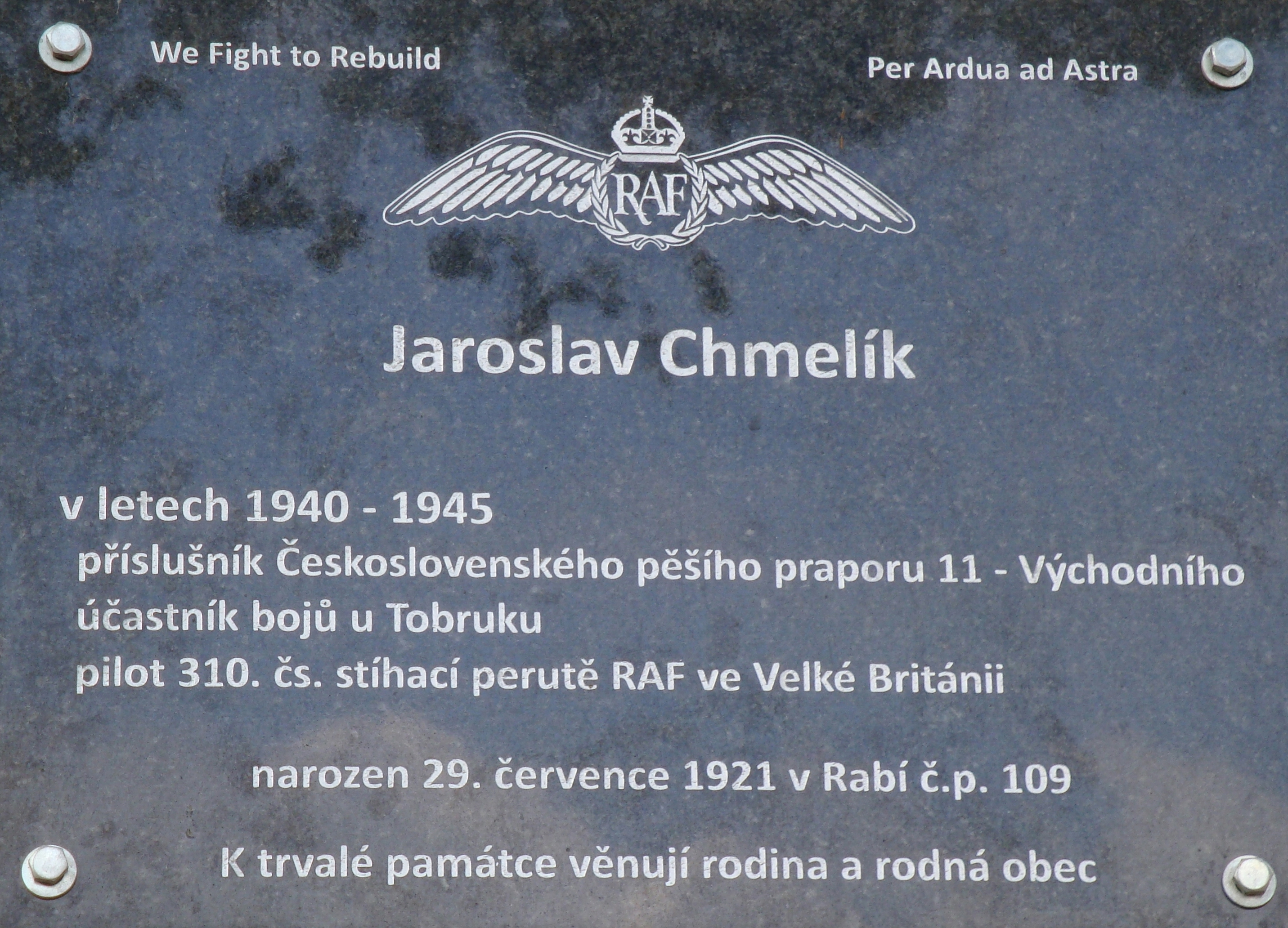 Jaroslav Chmelík, 2WW pilot, memory desk in Rabí (Czech Rep.)